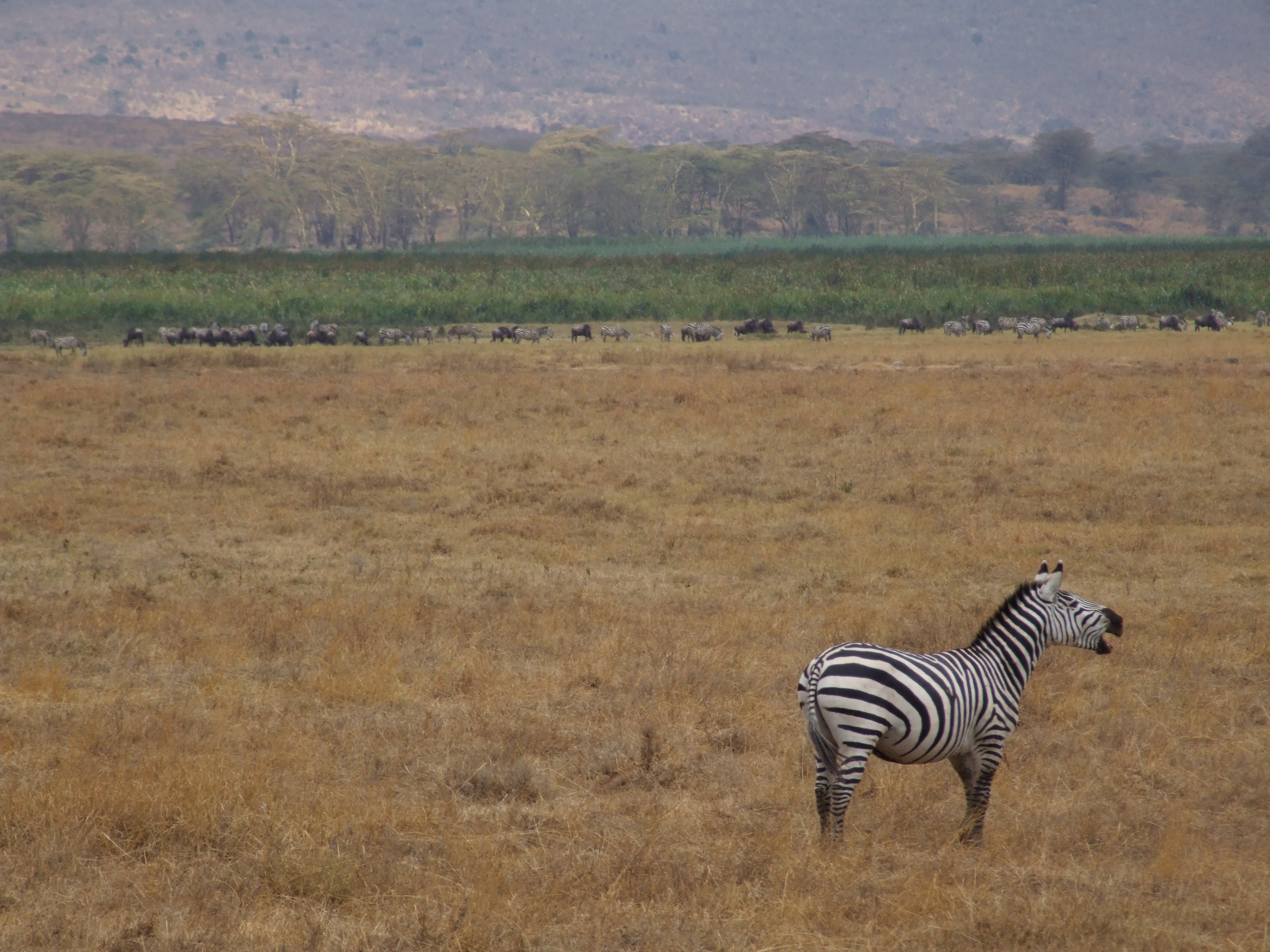 Zebra in the Ngorongoro crater